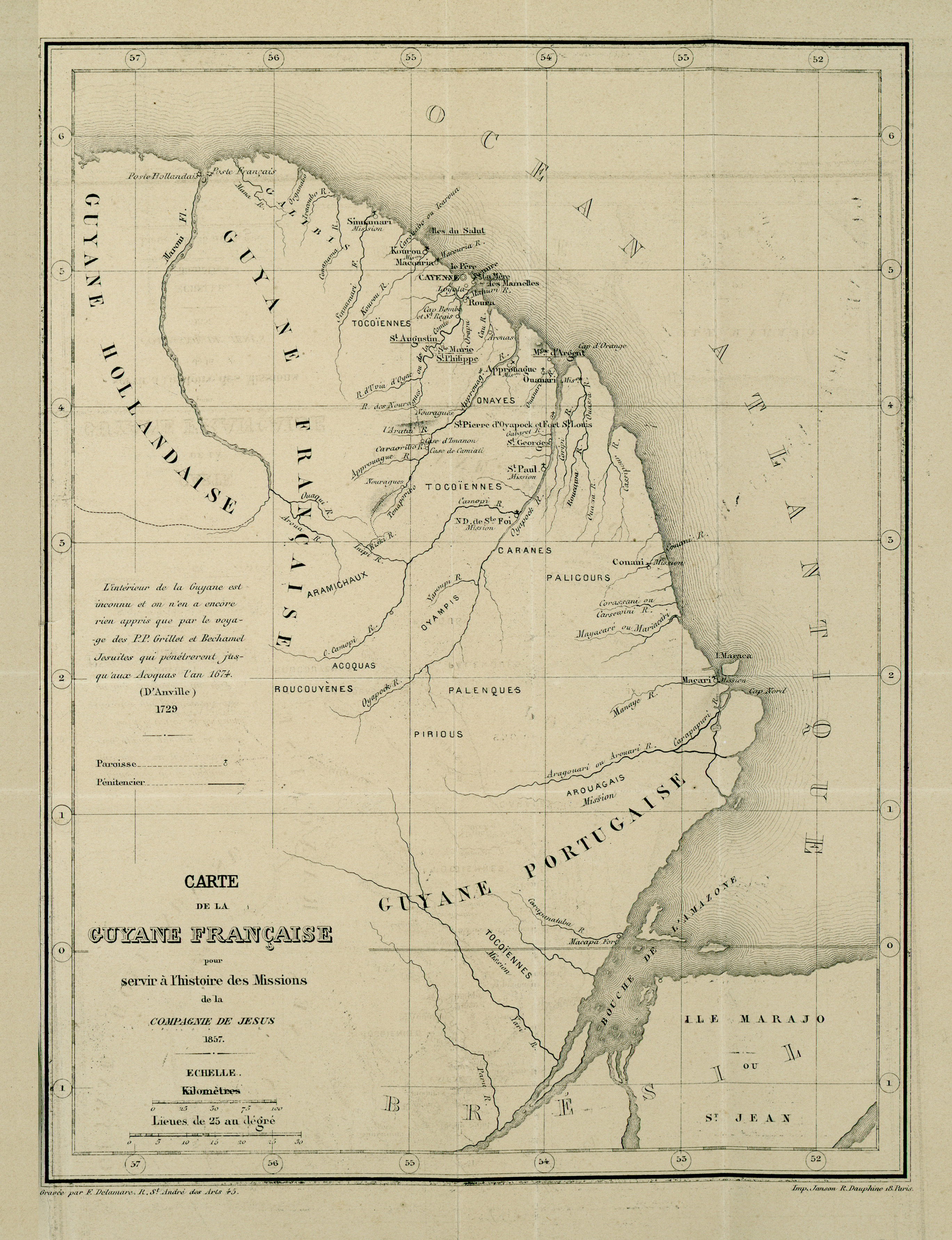 Map of French Guiana, used to illustrate a history of the Jesuit missions